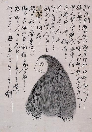 The apparition of Japan,尼彦（Amabiko）